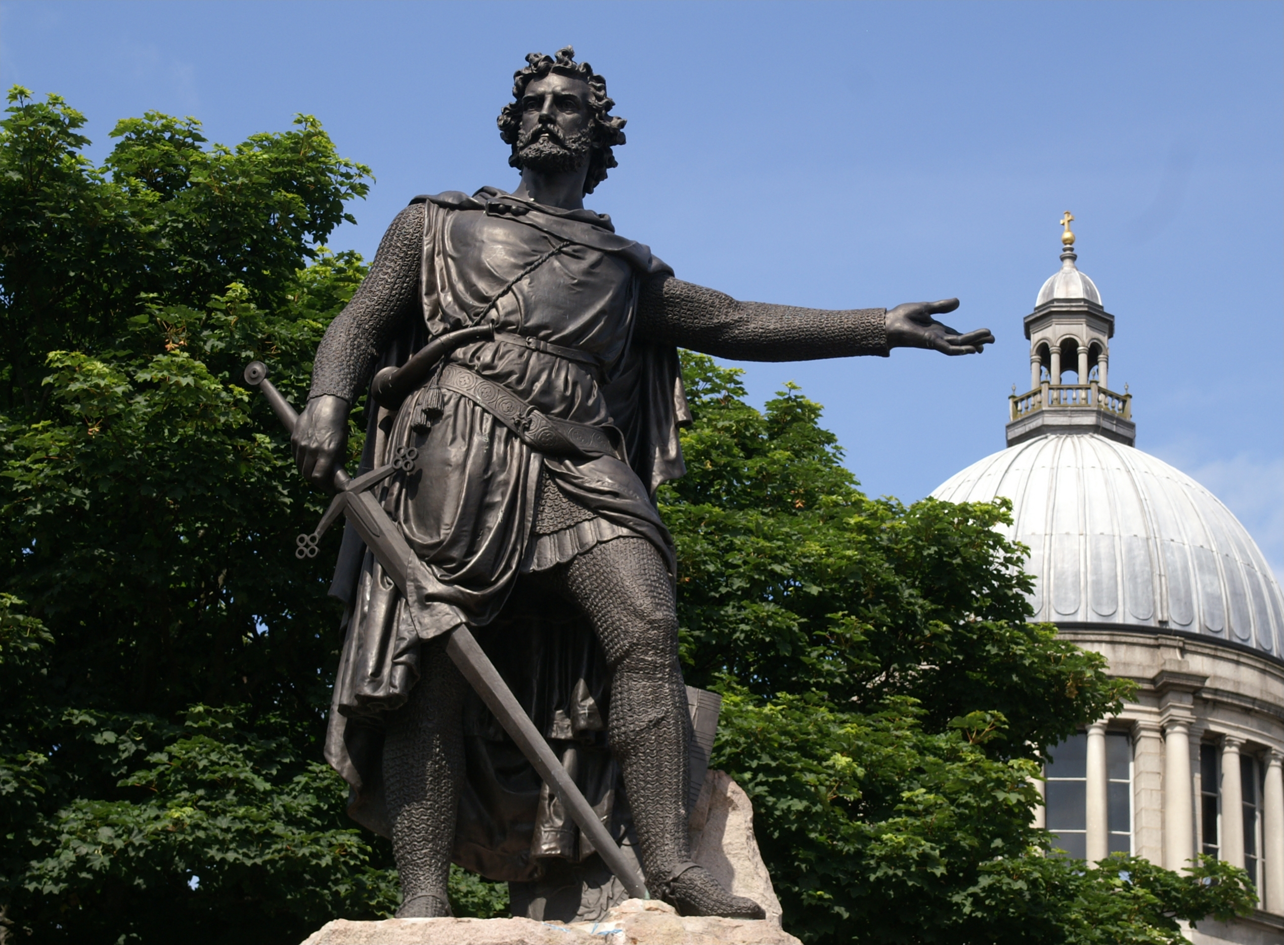 William Wallace Statue. Photo taken by Axis12002